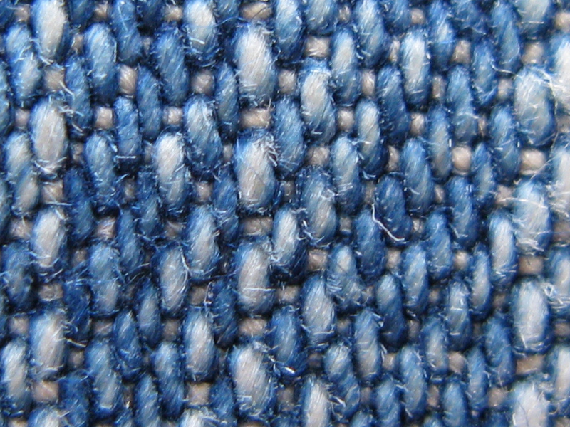 Closeup of a Blue Jeans.